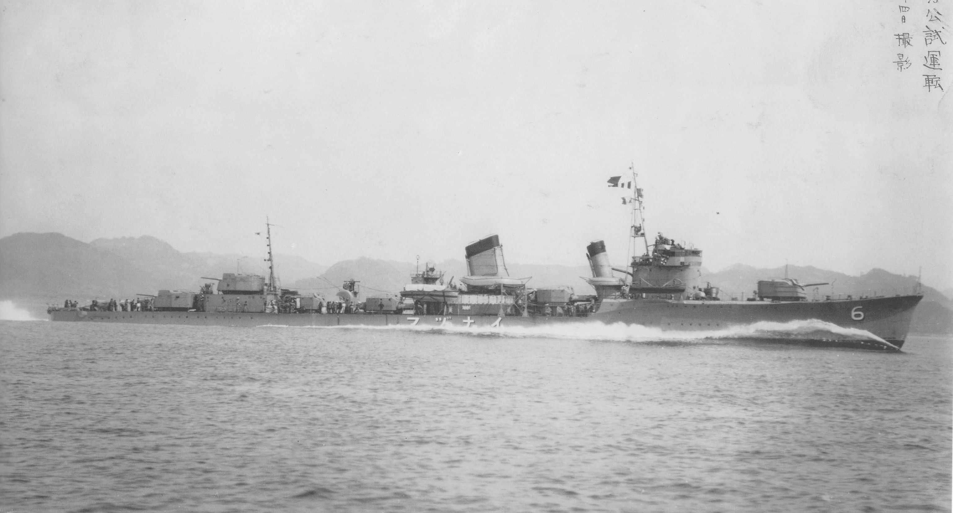 Imperial Japanese Navy destroyer Inazuma, the second Japanese warship to bear that name.